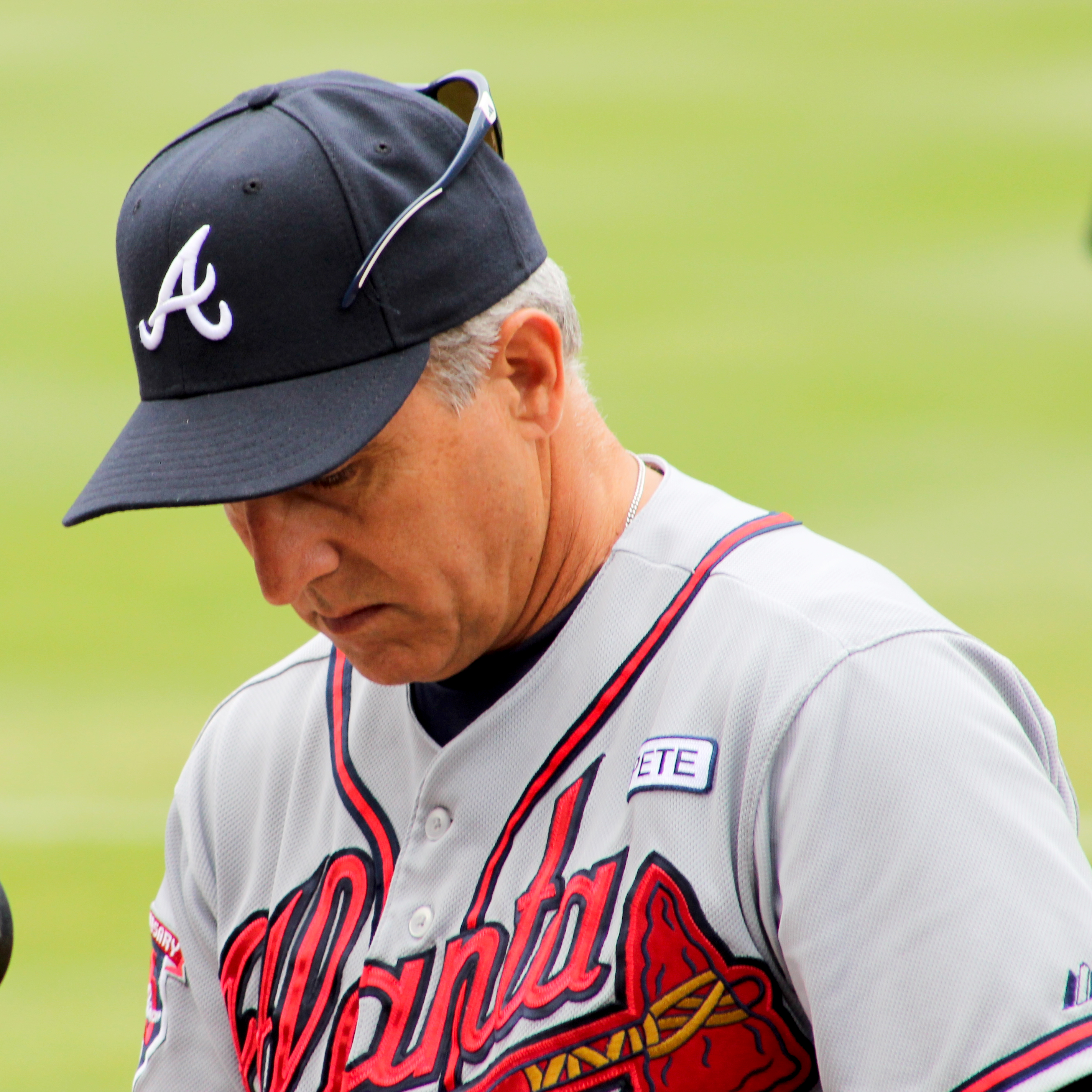 Professional baseball coach Doug Dascenzo before a baseball game in Arlington in September 2014.